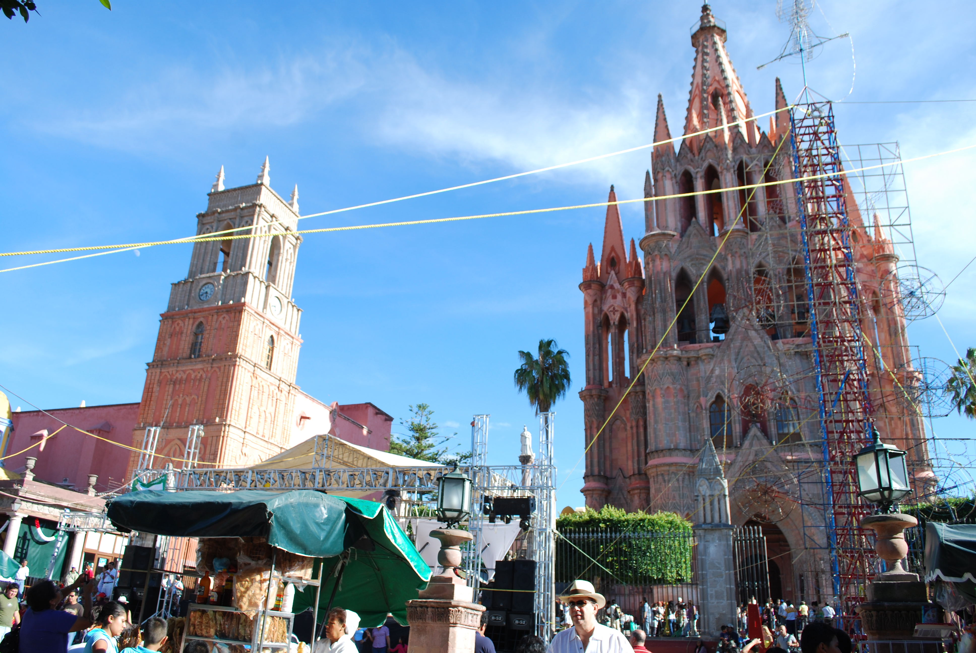 Parish of San Miguel with decorations for the Bicentennial in San Miguel de Allende, Guanajuato, Mexico